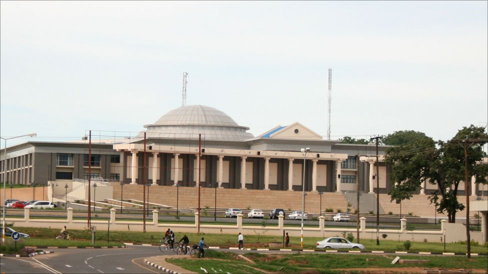 Malawi Paliament building as seen from Kenyatta Drive